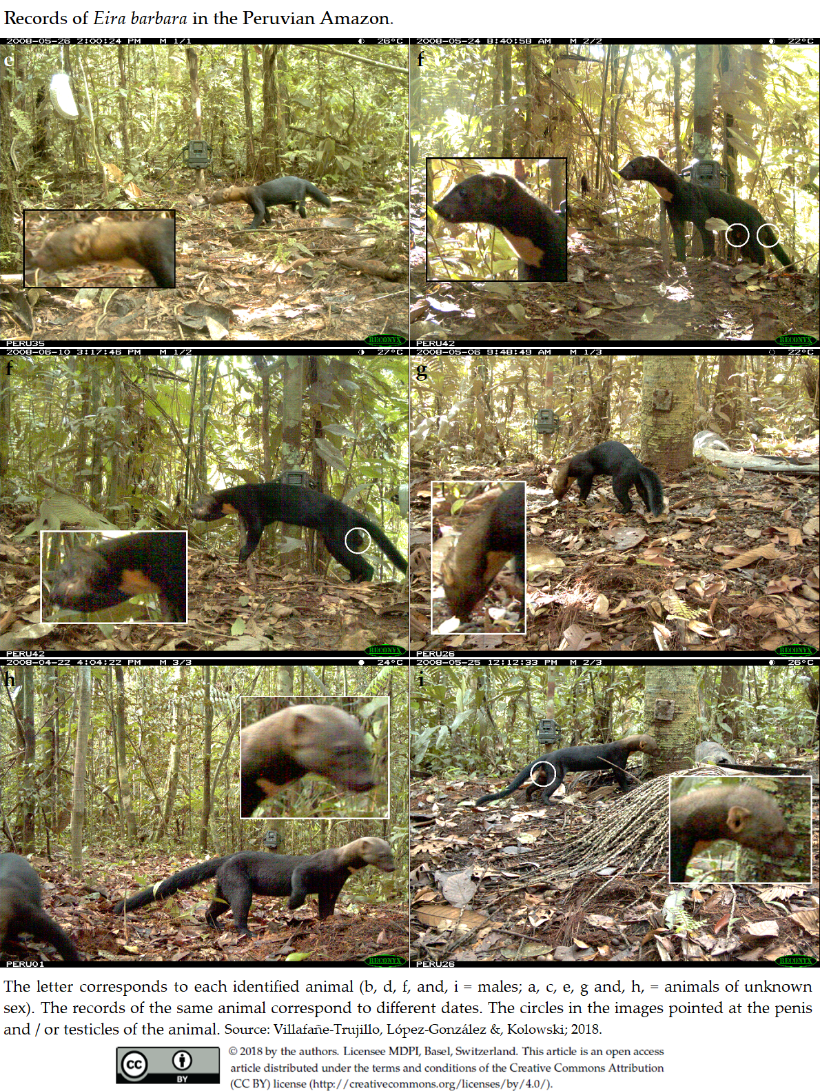 Tayras in the Peruvian Amazon.